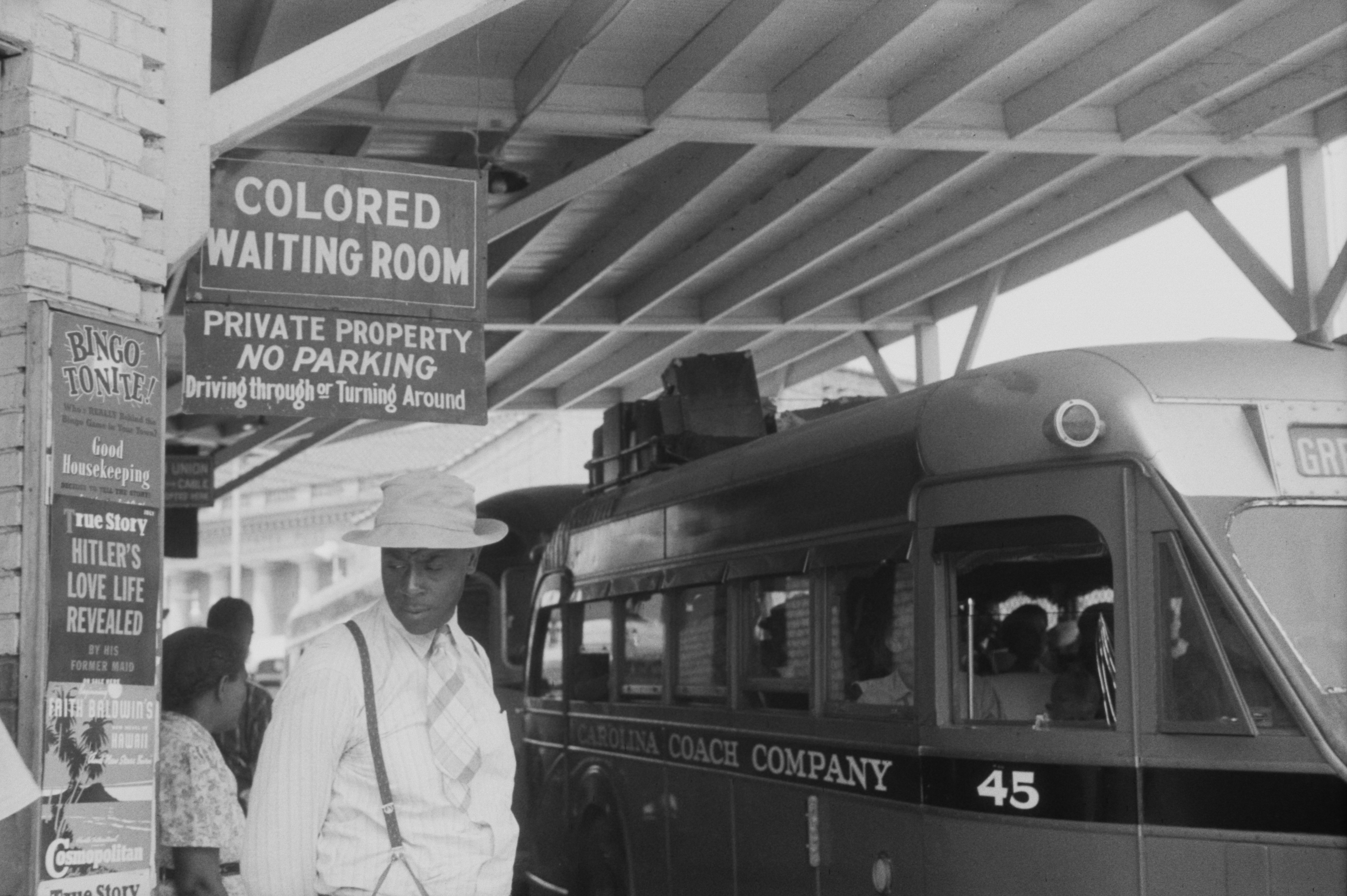 "At the bus station in Durham, North Carolina." May 1940, Jack Delano.